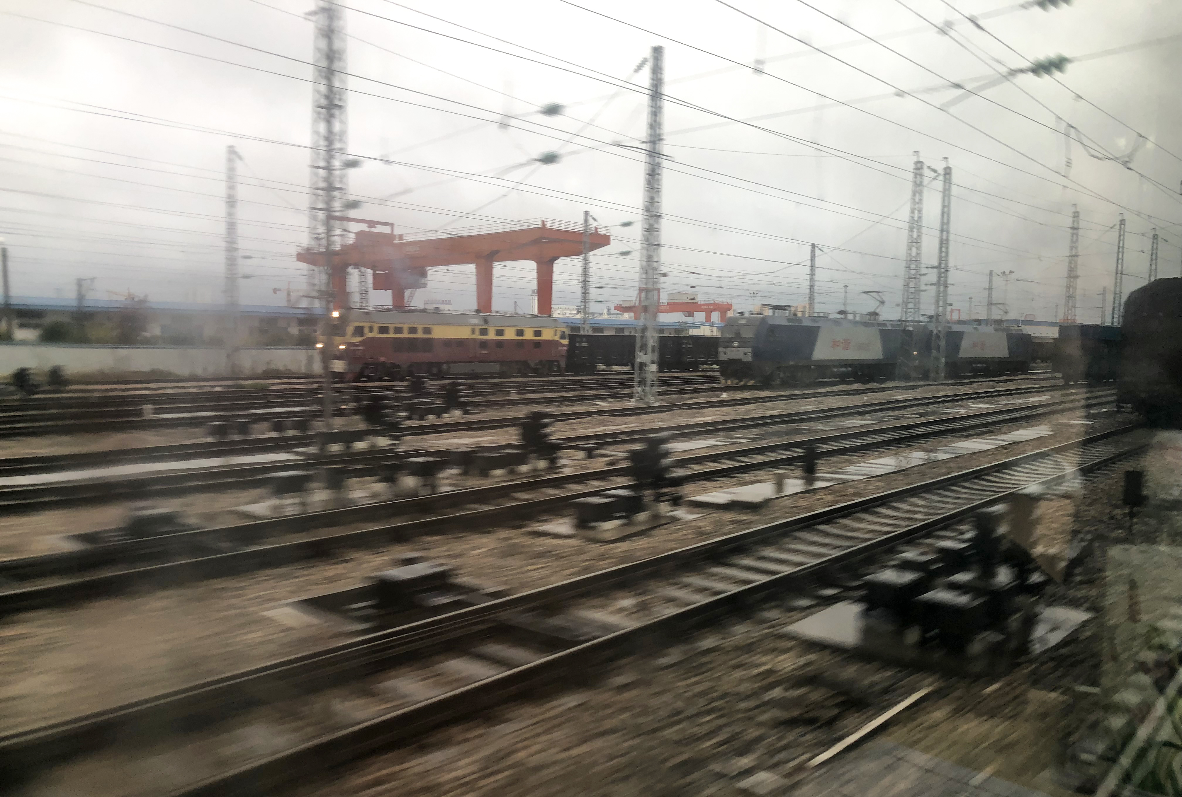 Taken from Z162... rainy outside!